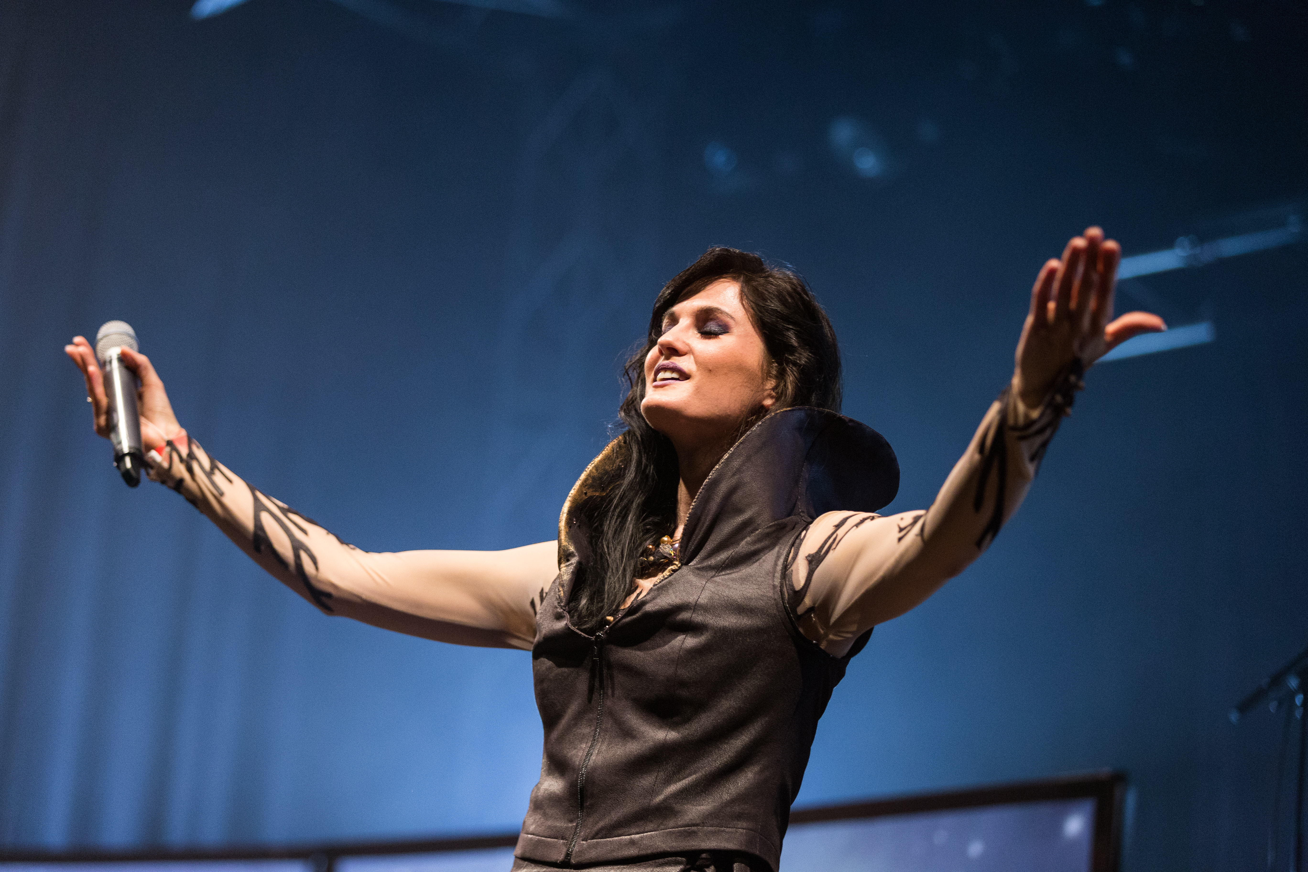 The German symphonic metal band Xandria at the Wave-Gotik-Treffen 2017 in Leipzig/Germany (Venue Kohlrabizirkus).